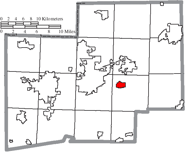 Map of the municipal and township boundaries of Stark County, Ohio, United States, as of the 2000 census, with the location of the village of East Canton highlighted. Township borders are shown only in unincorporated areas in order to differentiate incorporated and unincorporated areas more clearly.